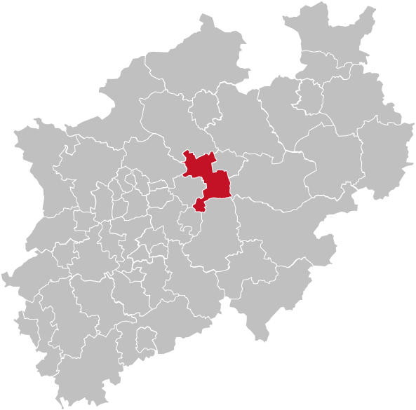 Map of Kreis Unna, a District of Northrhine-Westphalia (NRW), Germany. Red/Grey colors match the color scheme of Germany maps and information boxes in German Wikipedia. Kreis is highlighted in red. Former version of map was based upon Image:North rhine w template.png that displayed some districts in the Cologne/Bonn area not correctly.This new version is based upon template